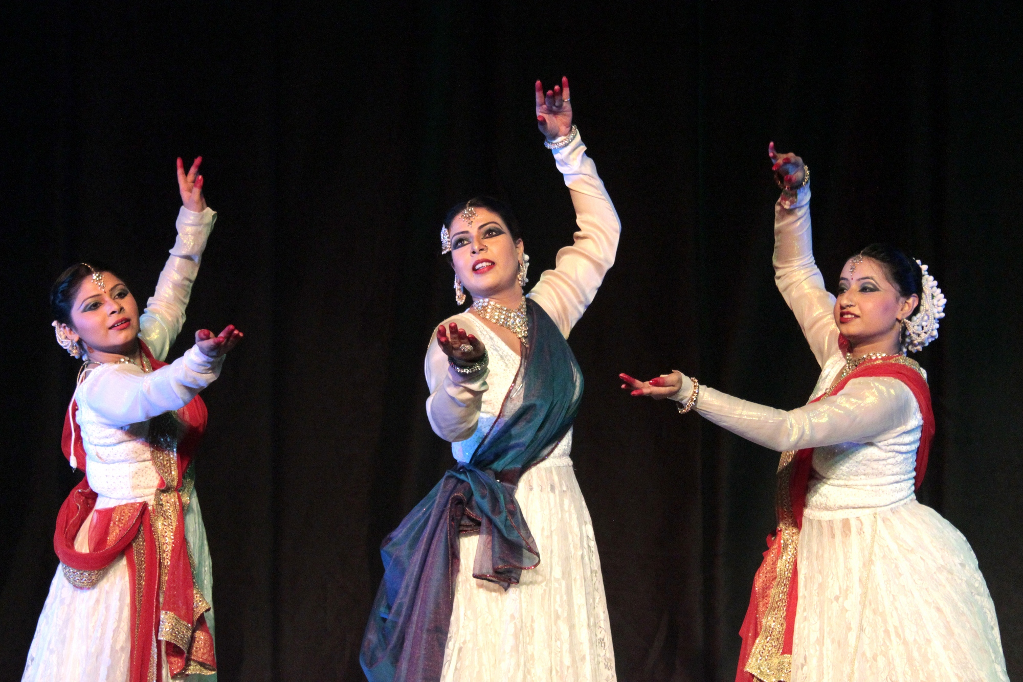 Kathak Facial Expressions